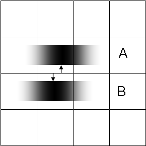 Both features cover three pixels but to different extents. Computing centroids of distributions enables locations to be identified with better precision than pixel dimension, an example of geometrical superresolution.